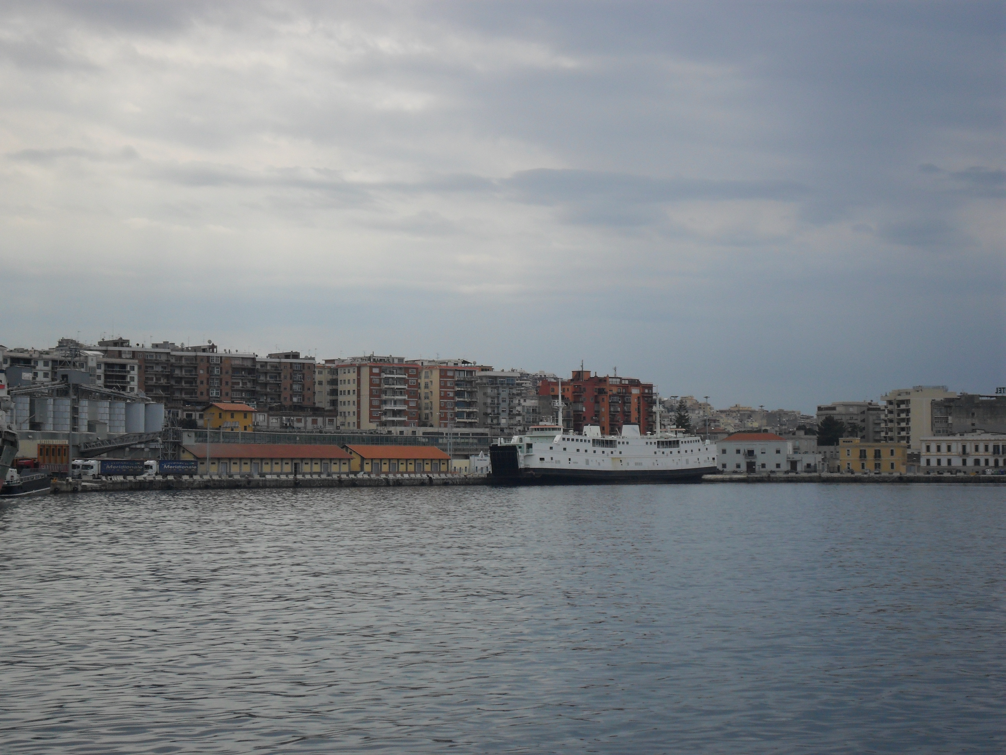 the port city of Reggio Calabria